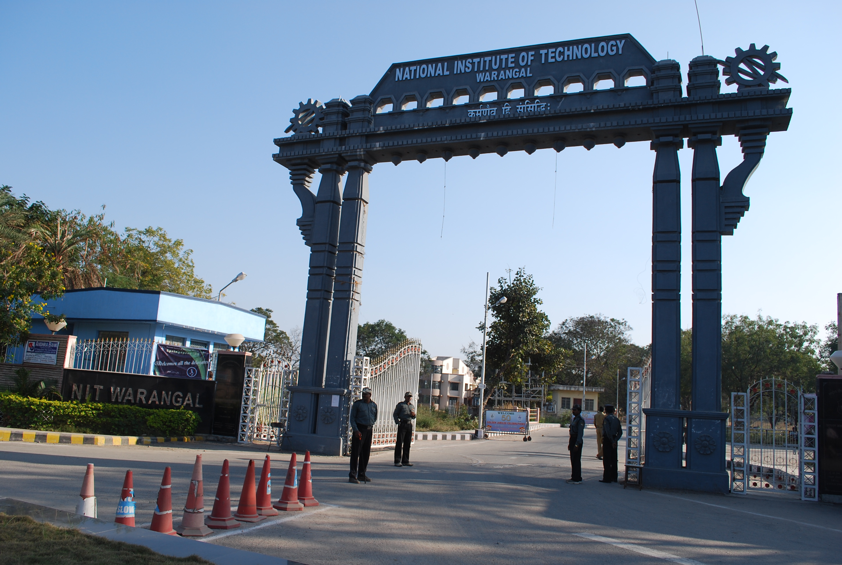 The NITW main gate.